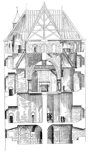 Chateau D'Etampes - reconstruction